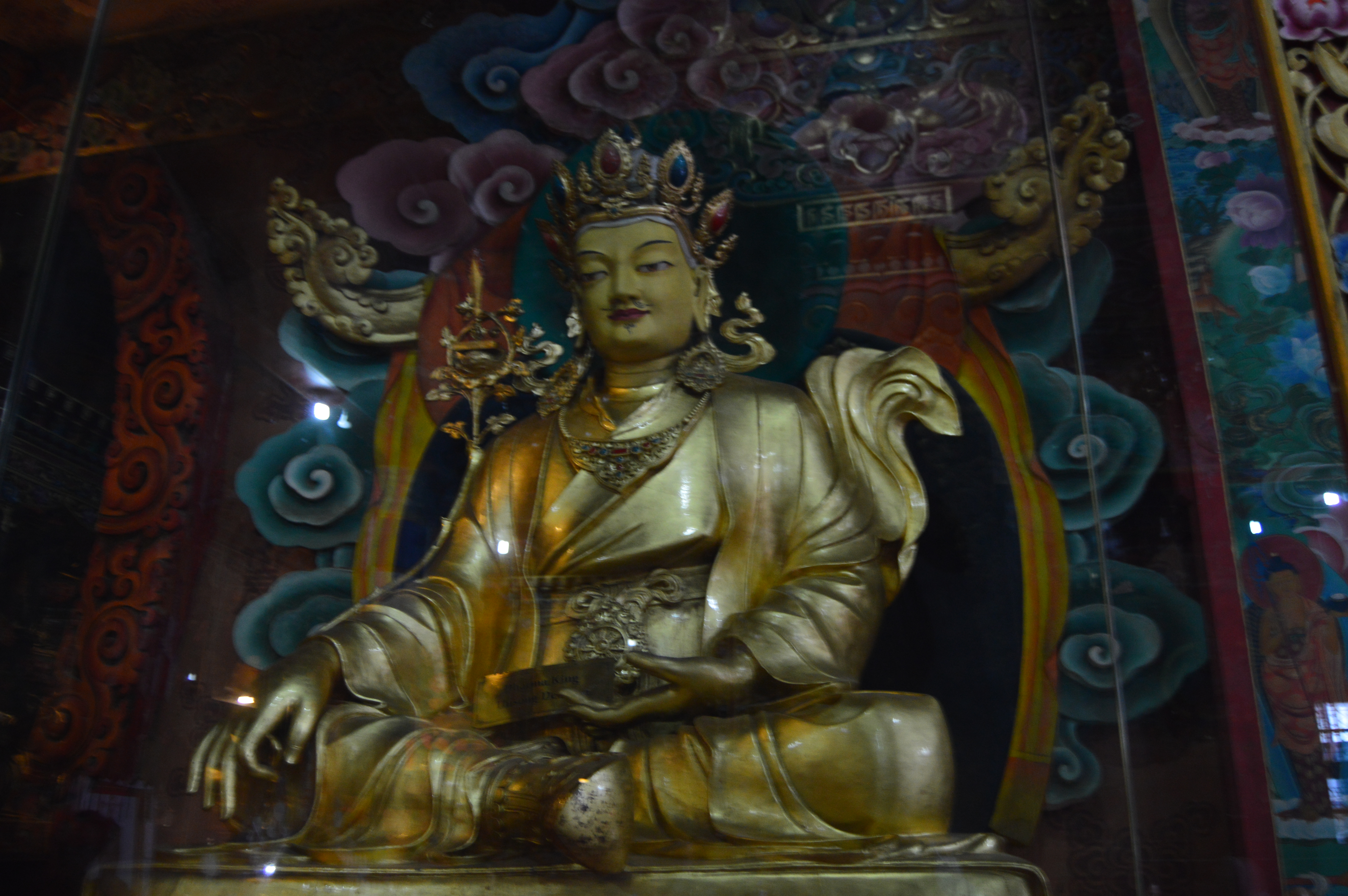 Bauddha Naht